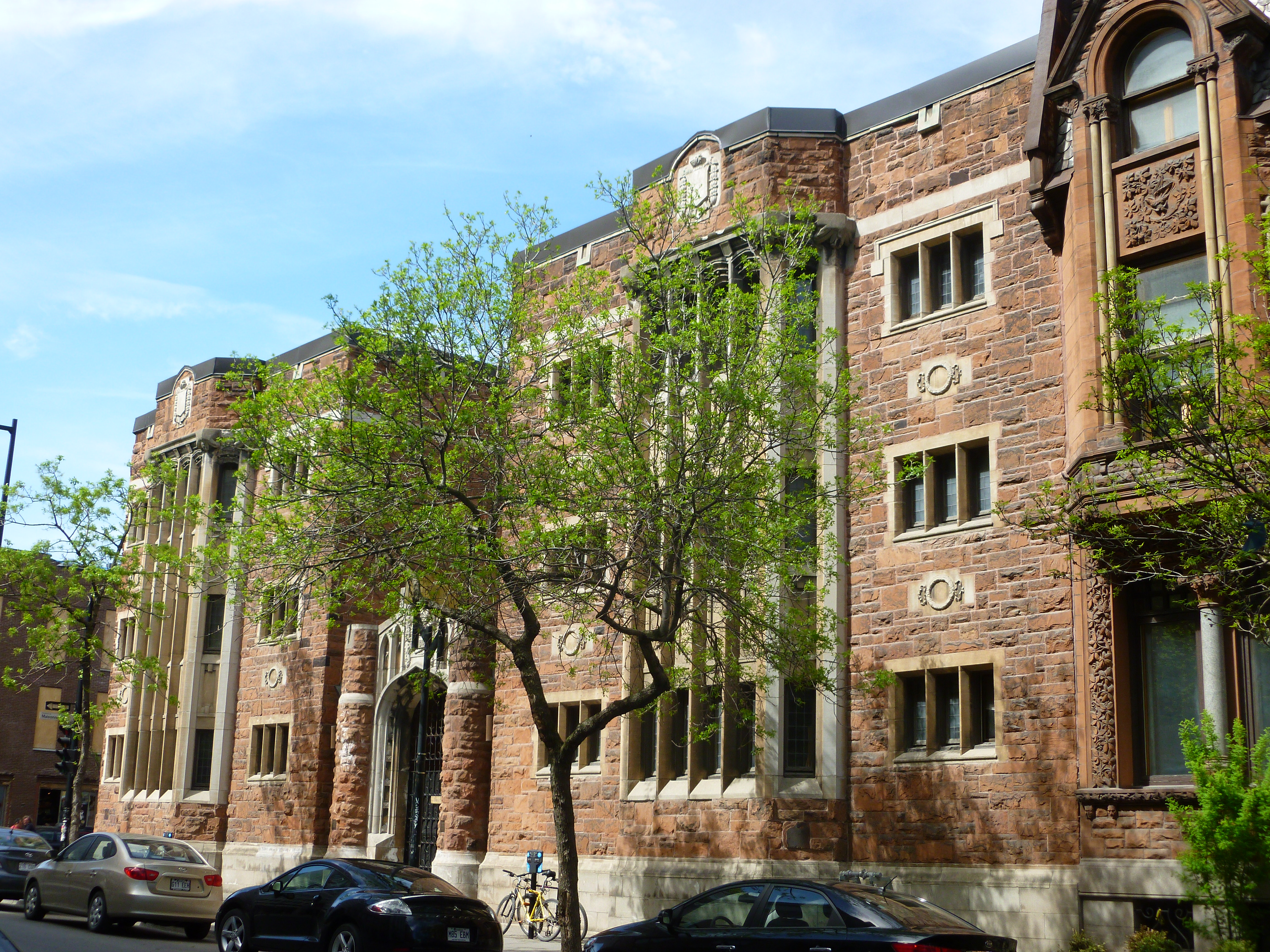 Bishop Court Apartments, 1463, Bishop Street, Montreal, Quebec, H3G, Canada.